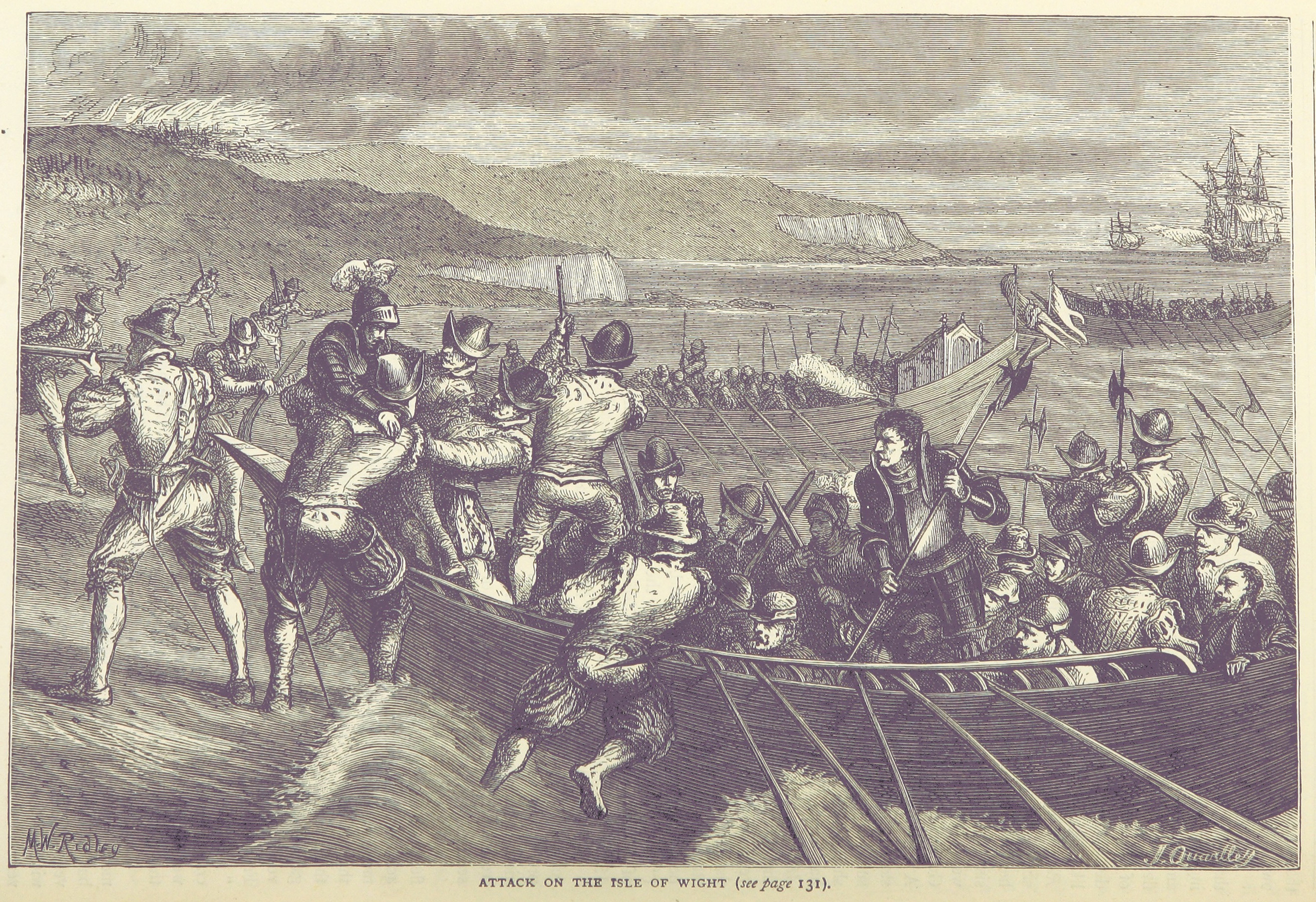 The 1545 French invasion of the Isle of Wight.